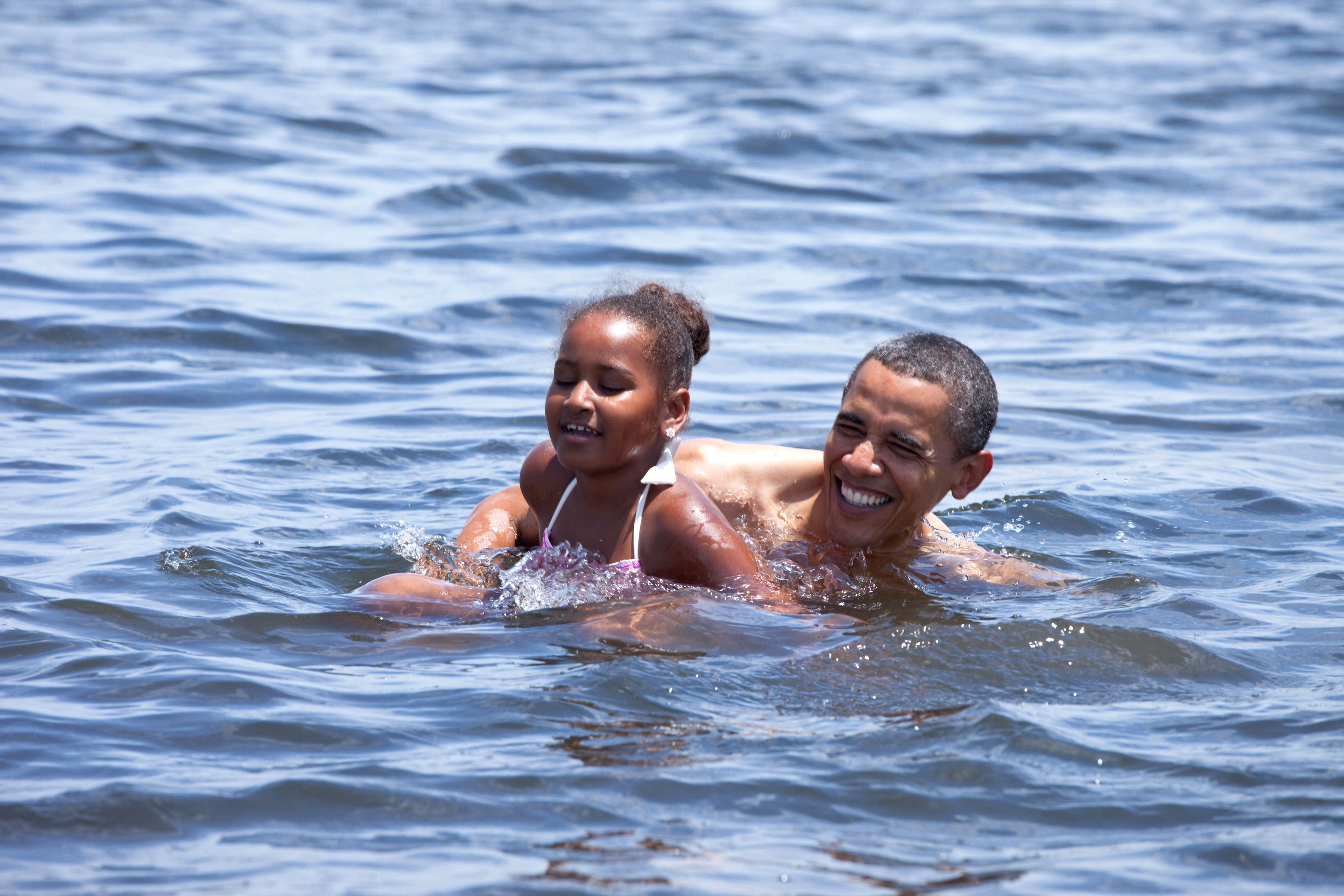 President Barack Obama and daughter Sasha swim at Alligator Point in Panama City Beach, Fla., Saturday, Aug. 14, 2010. The President traveled to Panama City Beach with First Lady Michelle Obama and Sasha to meet with local business owners and officials and to encourage Americans to travel to the Gulf Coast beaches